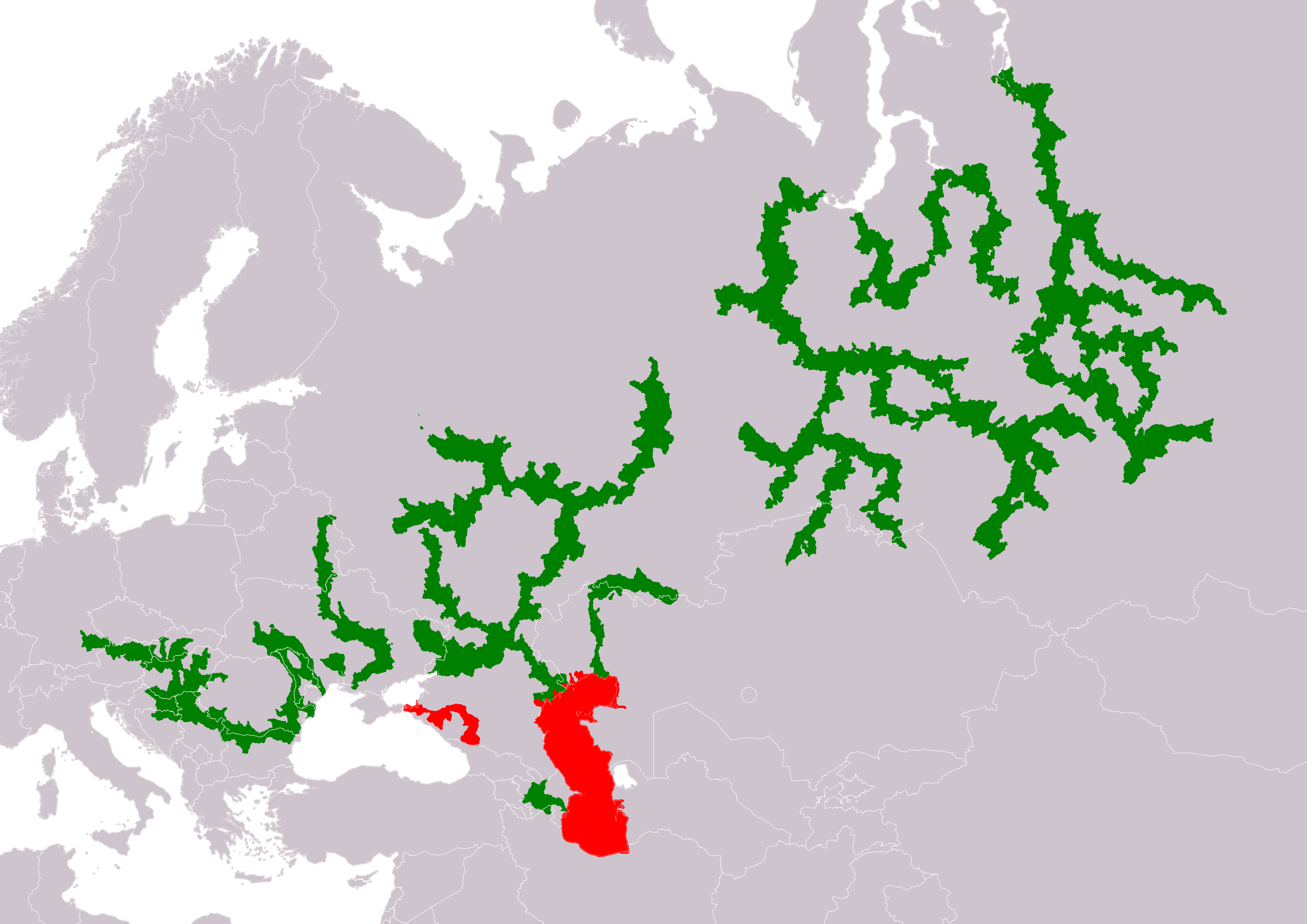 Distribution map of sterlet (Acipenser ruthenus) according to IUCN version 2020.1; key: Legend: Extant, resident (#008000), Extinct (#FF0000)